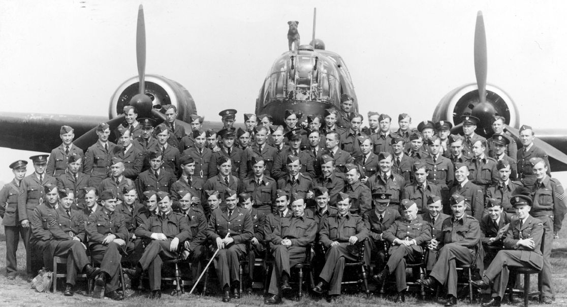 Photograph of No. 305 Polish Bomber Squadron taken in 1942 at RAF Cammeringham Lincolnshire, posed in front of a Vickers Wellington Bomber.